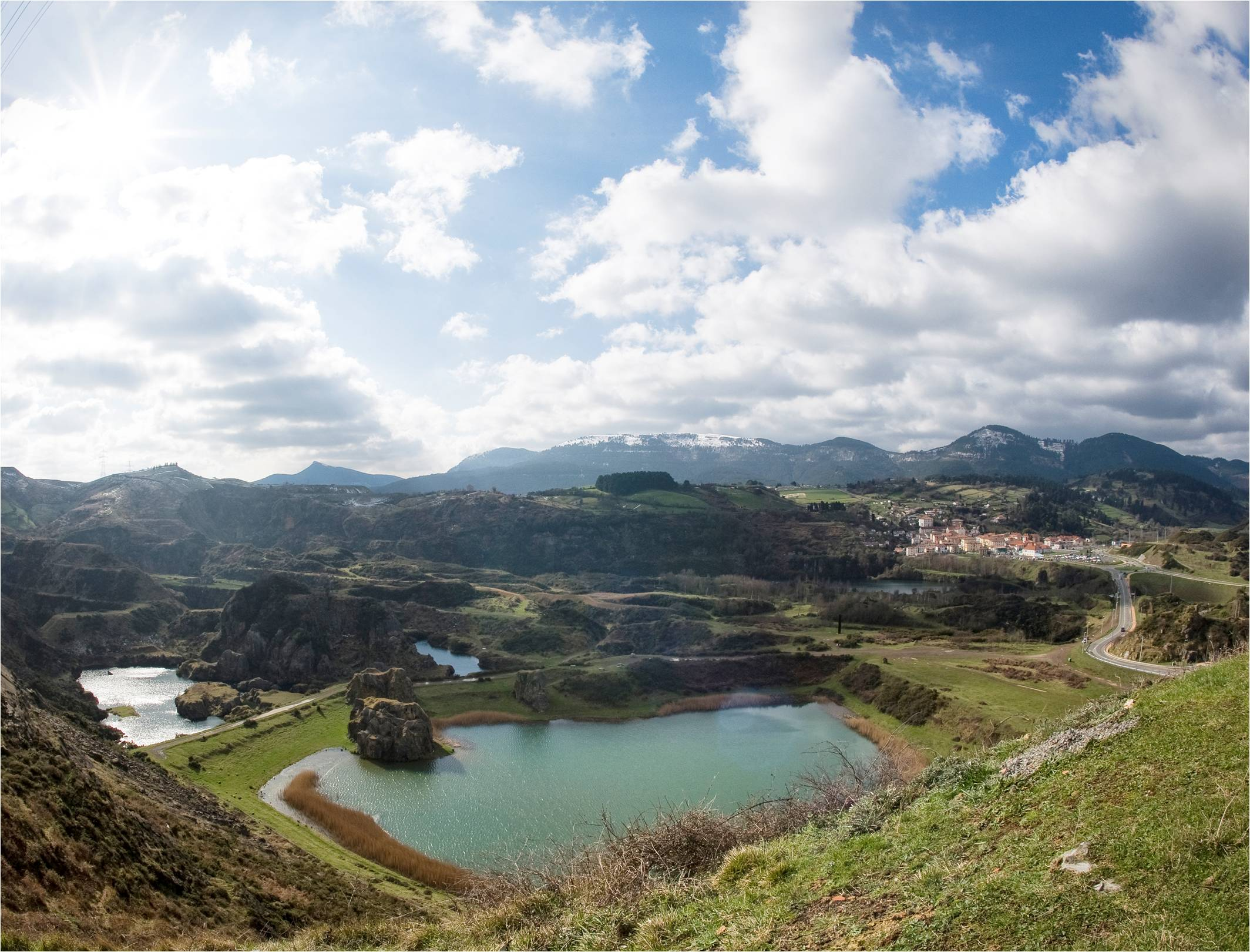 La Arboleda